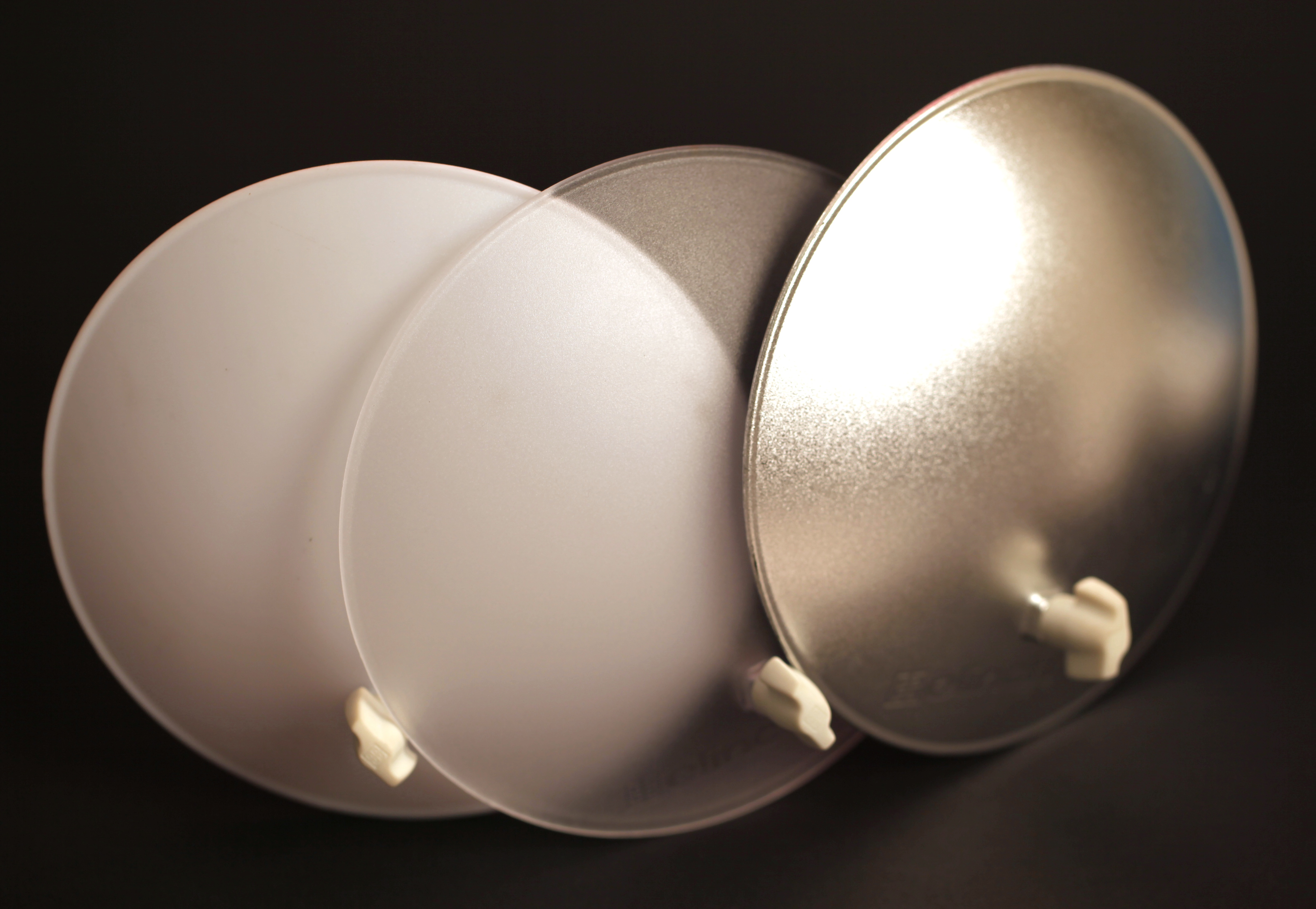 Deflectors in white, clear, and silver